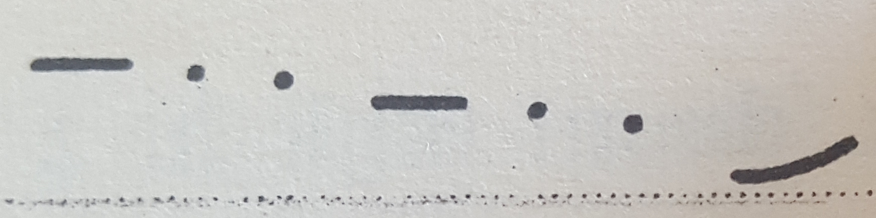 This is Armstrong and Ward (1931)'s notation for marking the intonation of the question "Have you been staying there long?". It is an example of "Tune 2".